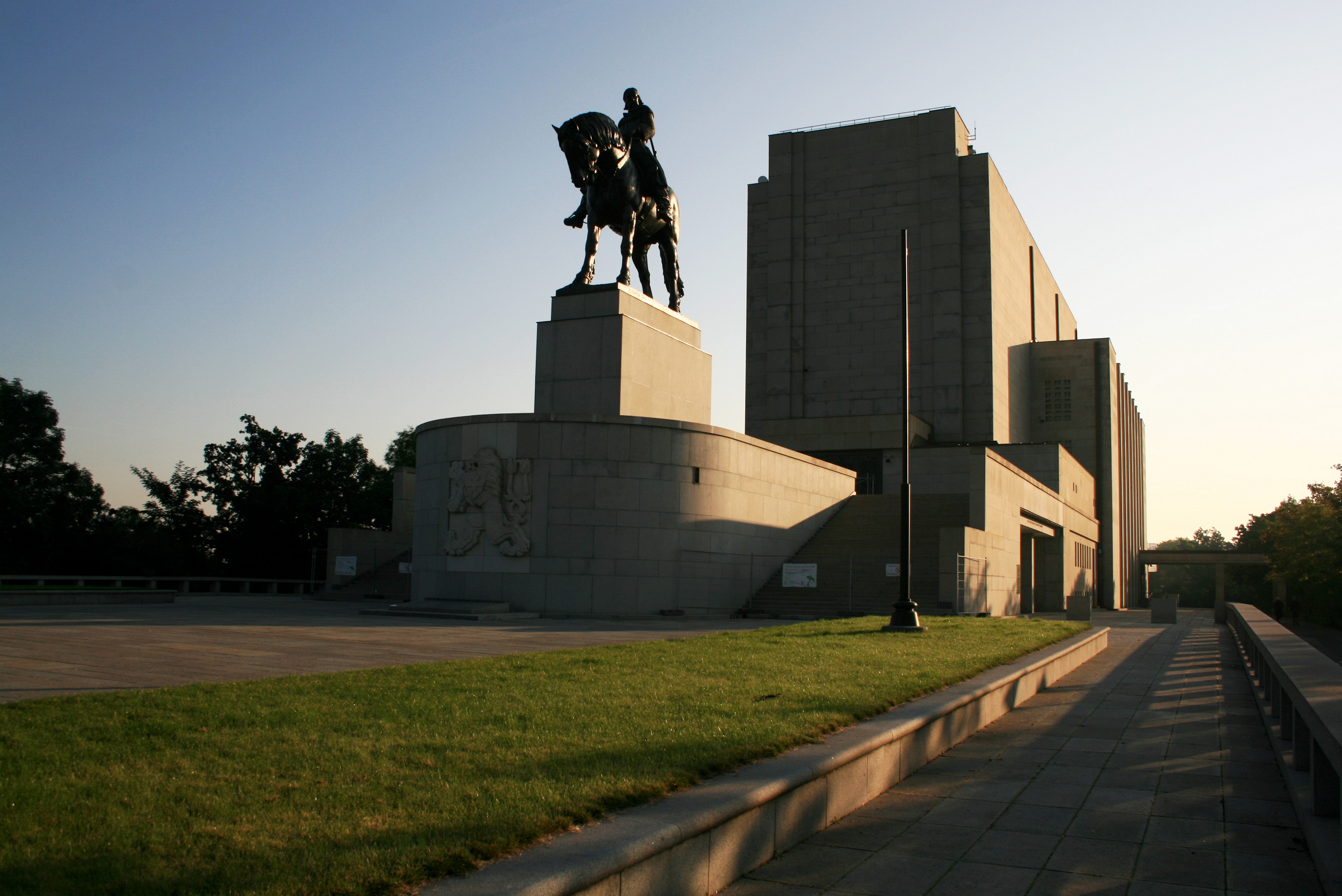 National Memorial on the Vítkov Hill in Prague